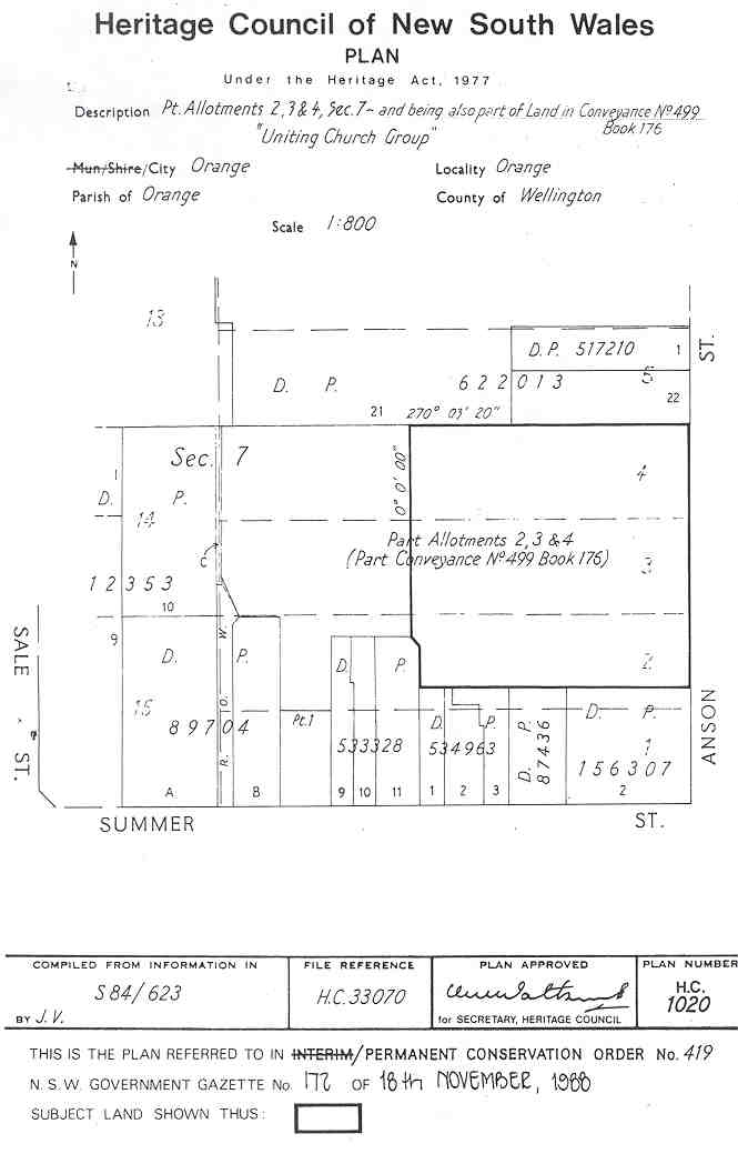 Uniting Church and Kindergarten Hall, Orange: PCO Plan Number 419